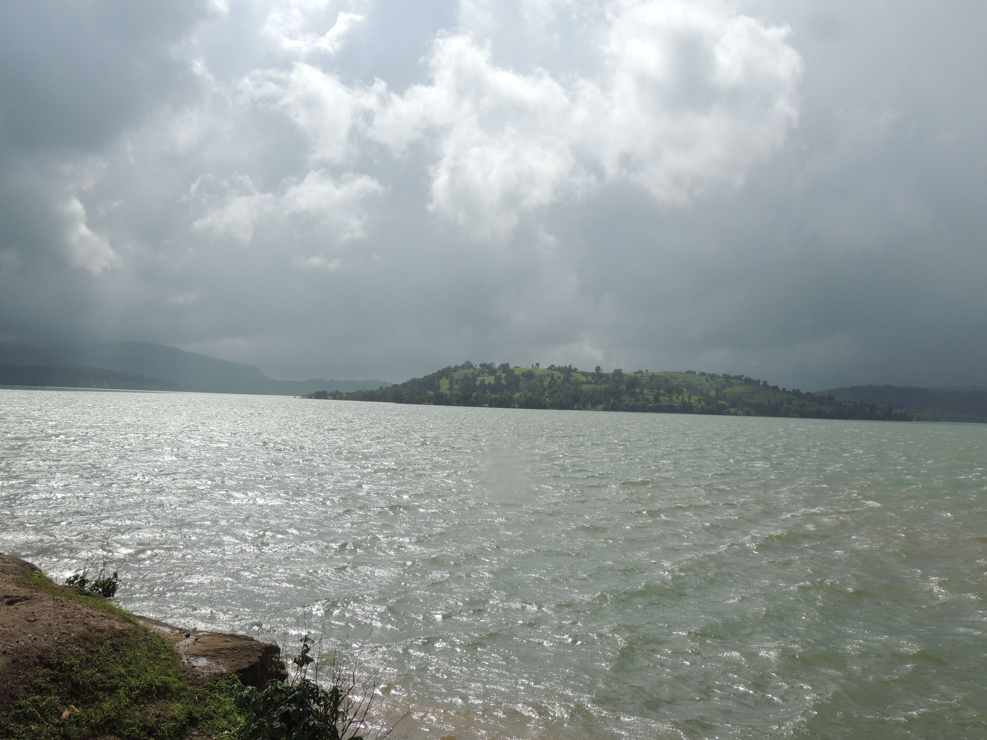 backwaters of Wilson Dam, maharashtra